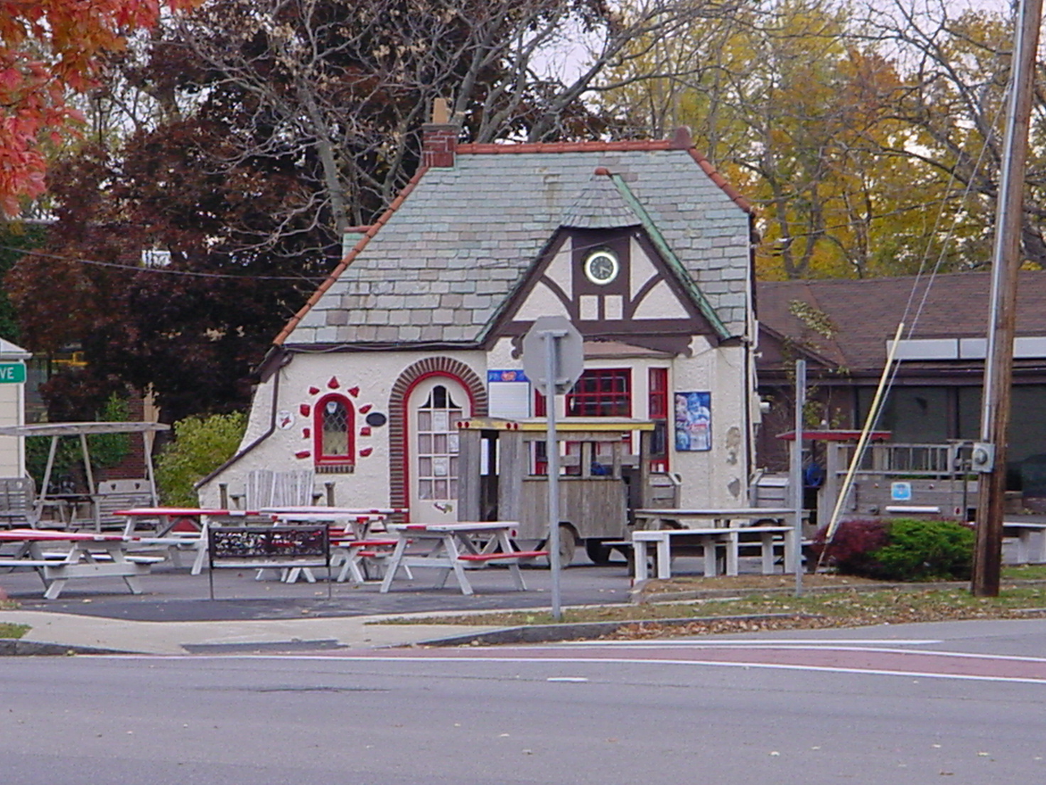 Photo of the former Liebler-Rohl Gasoline Station in Lancaster that is on the National Register of Historic Places.